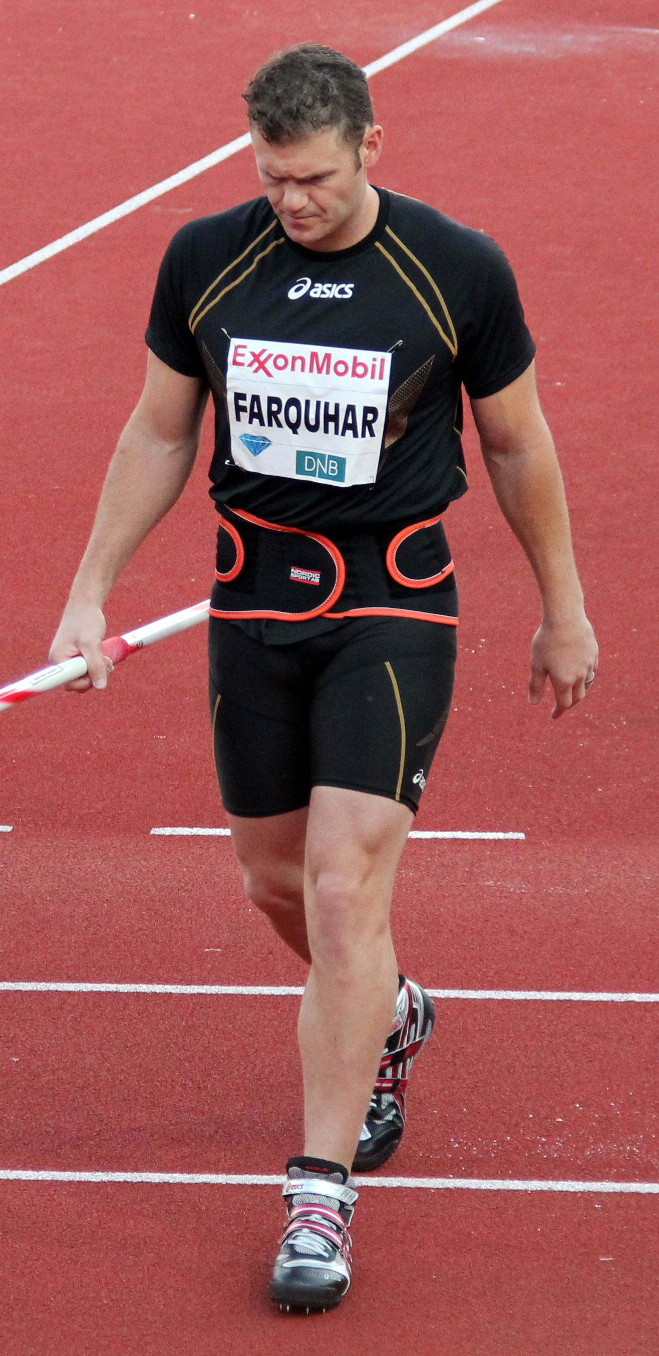 Stuart Farquhar at the 2012 Bislett Games